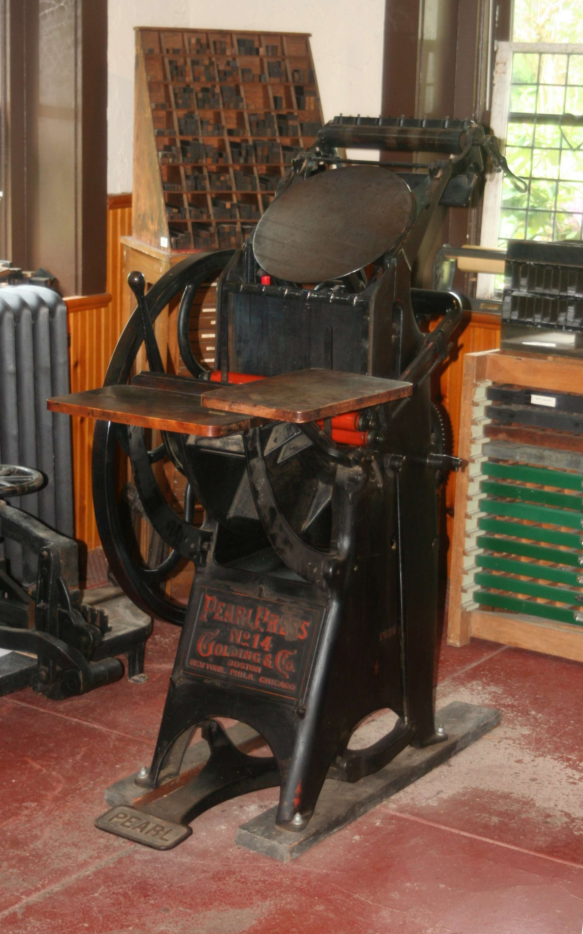 Printing press at the Roycroft Community campus (displayed in the Copper Shop).